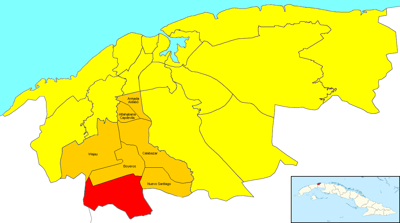 Locator map of the ward of Santiago de las Vegas (shown in red) within the municipal borough of Boyeros (orange) and the city of Havana (yellow). The little Cuban map in the corner shows Havana (dark red) within the island. Note: to obtain the borders of Santiago de las Vegas I followed the description on EcuRed.